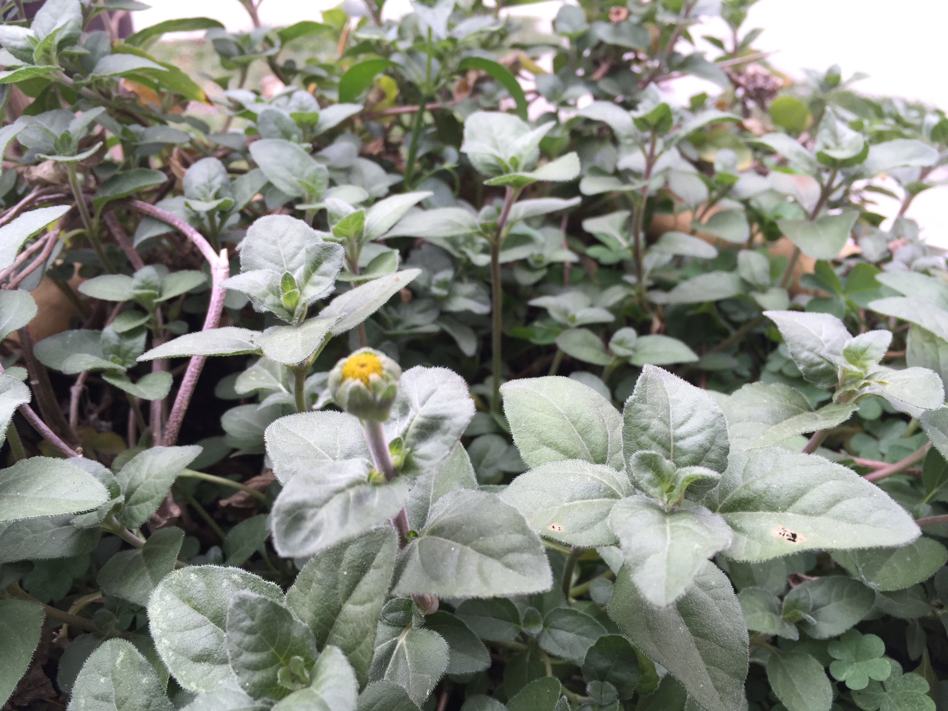 Heliopsis longipes, Querétaro, México.